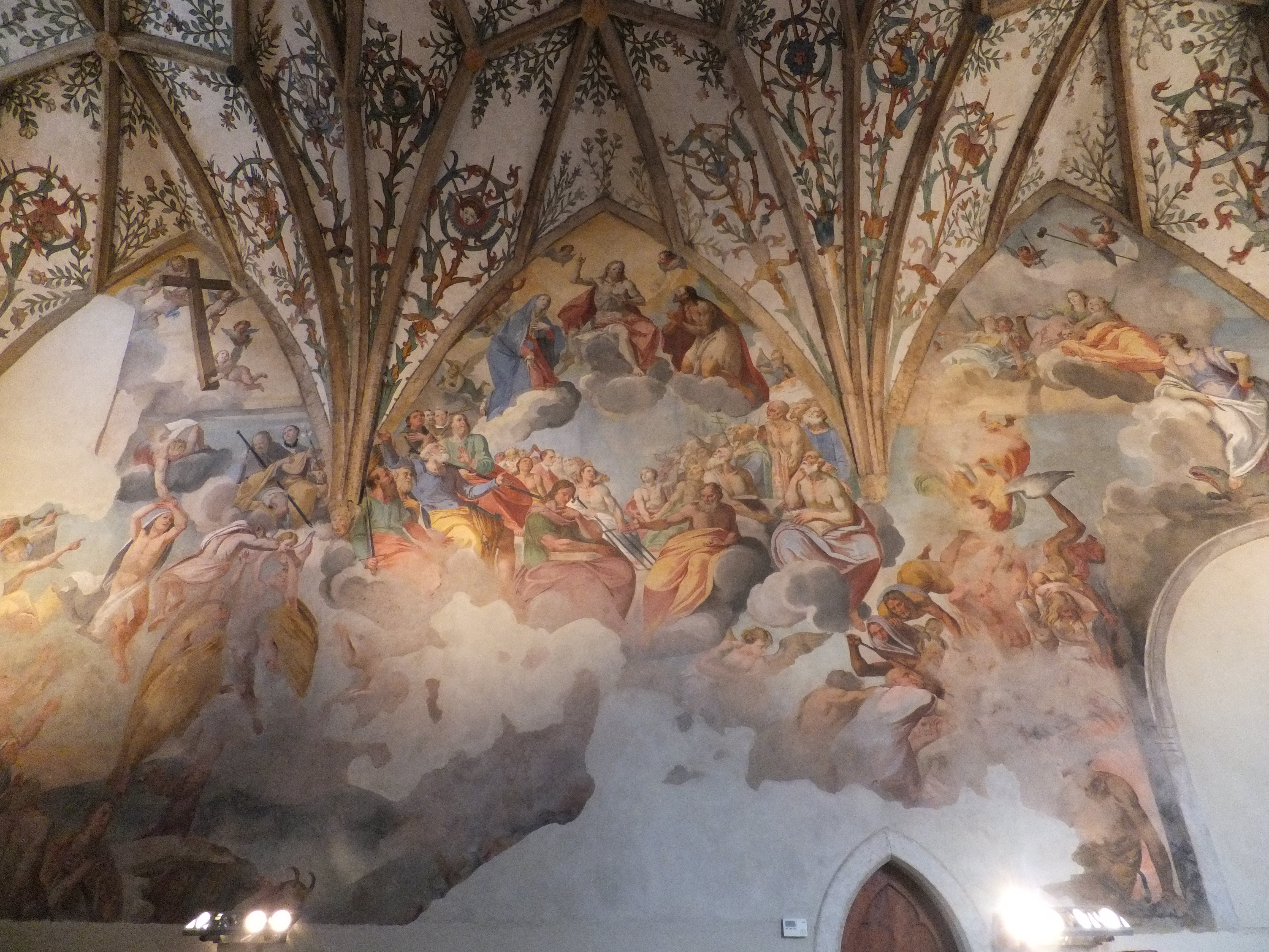 Cembra - Saint Peter church - Frescos of the Last Judgement by Valentino Rovisi